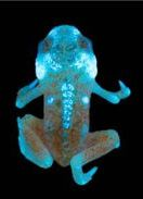 Fluorescence in pumpkin toadlets. Ethanol-preserved specimens of Brachycephalus pitanga (a–c), B. ephippium (e–g) and Ischnocnema parva (k), and live Ischnocnema parva (i,j) photographed in natural light (a,e,i) and showing fluorescence under UV illumination using two Fluotest Forte UV (λexcitation centred around 365 nm; b,f,j) and a laboratory UV light source (λexcitation = 365 nm) and an emission filter centred around 472 nm and 30 nm wide, thereby eliminating reflectance of all visible light (c,g,k). Note that the absence of fluorescence in I. parva results in a completely dark image (k). Computerized micro-tomography (µCT) reconstructions (c,h,l) show the correspondence between fluorescent patterns and bone structure in B. pitanga (d), B. ephippium (h) and I. parva (l). Photographs taken by L.C. and S.G. (a,b,e,f,i,j) and P.G., M.T. and S.G. (c,g,k).